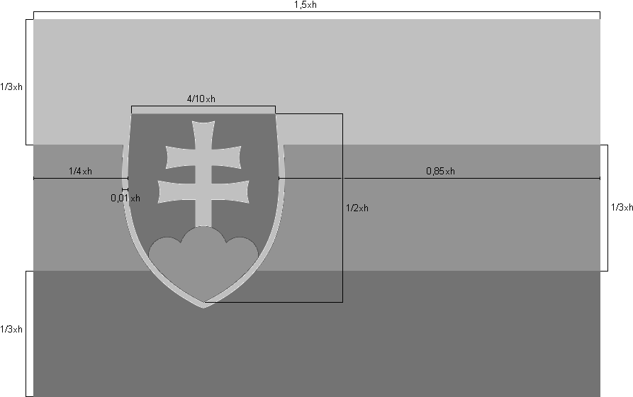 Flag of Slovakia, construction sheet